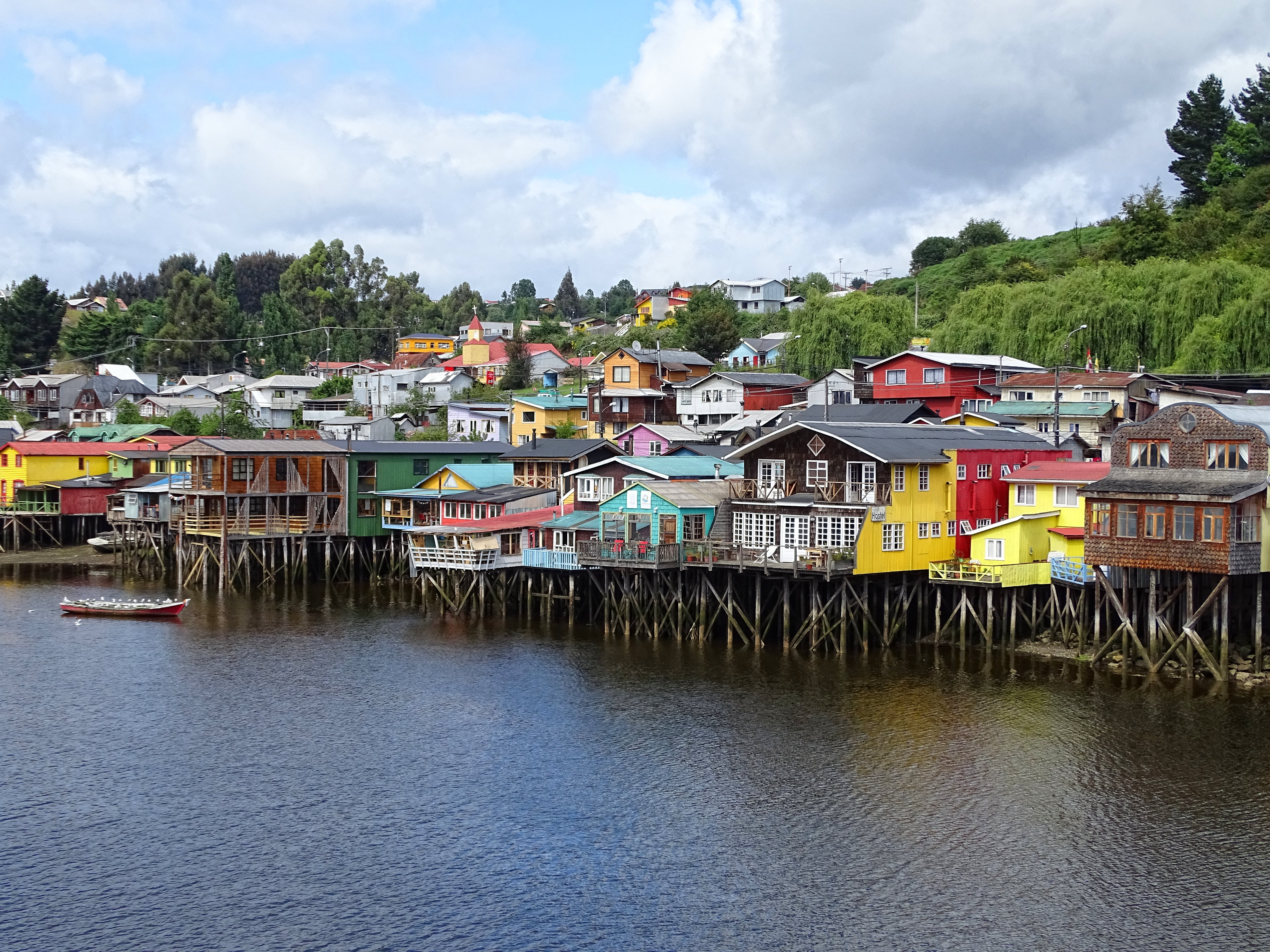 A row of palafitos, stilt houses, in Gamboa just outside the town centre of Castro on the island Chiloé in Chile.